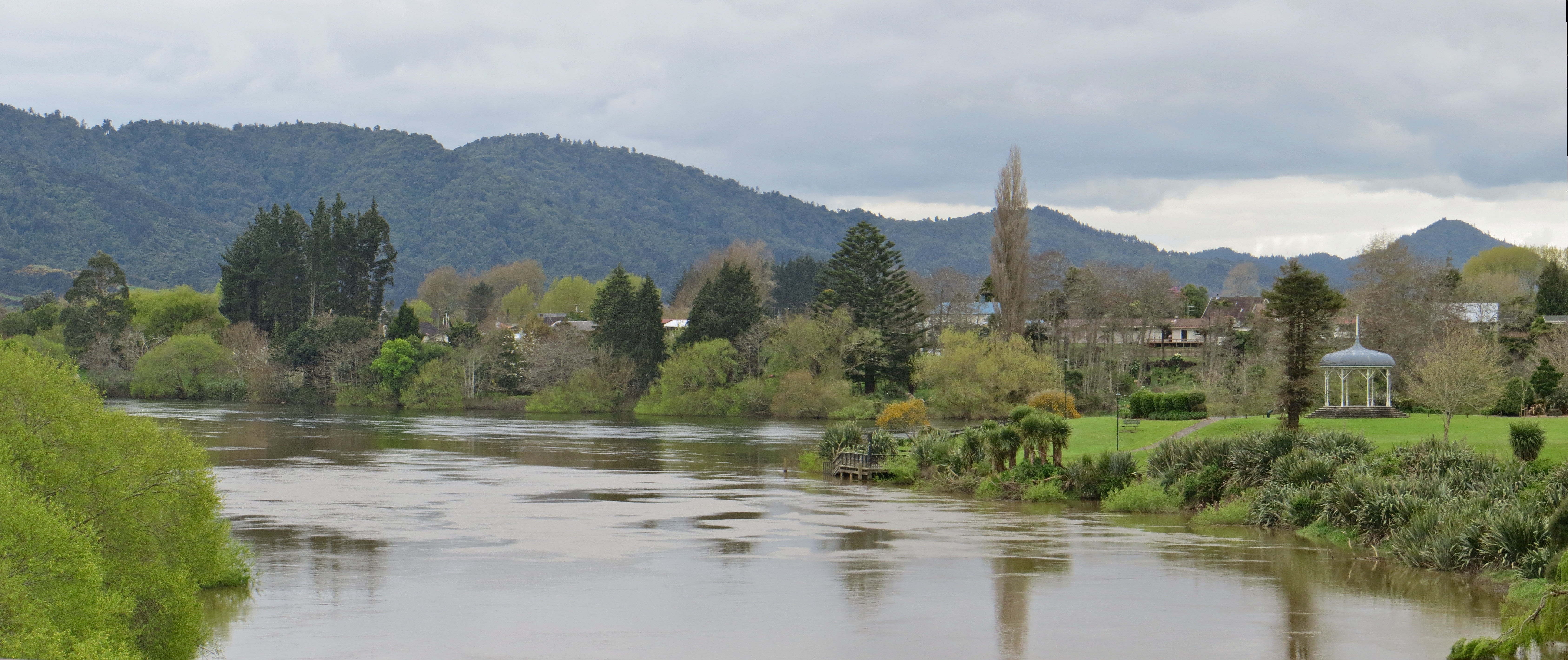 from road bridge looking north down Waipa River to Ngaruawahia Point bandstand and its confluence with the Waikato River